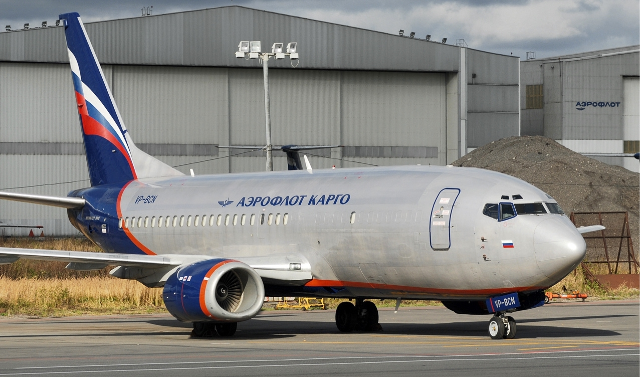 Aeroflot-Cargo Boeing 737-300